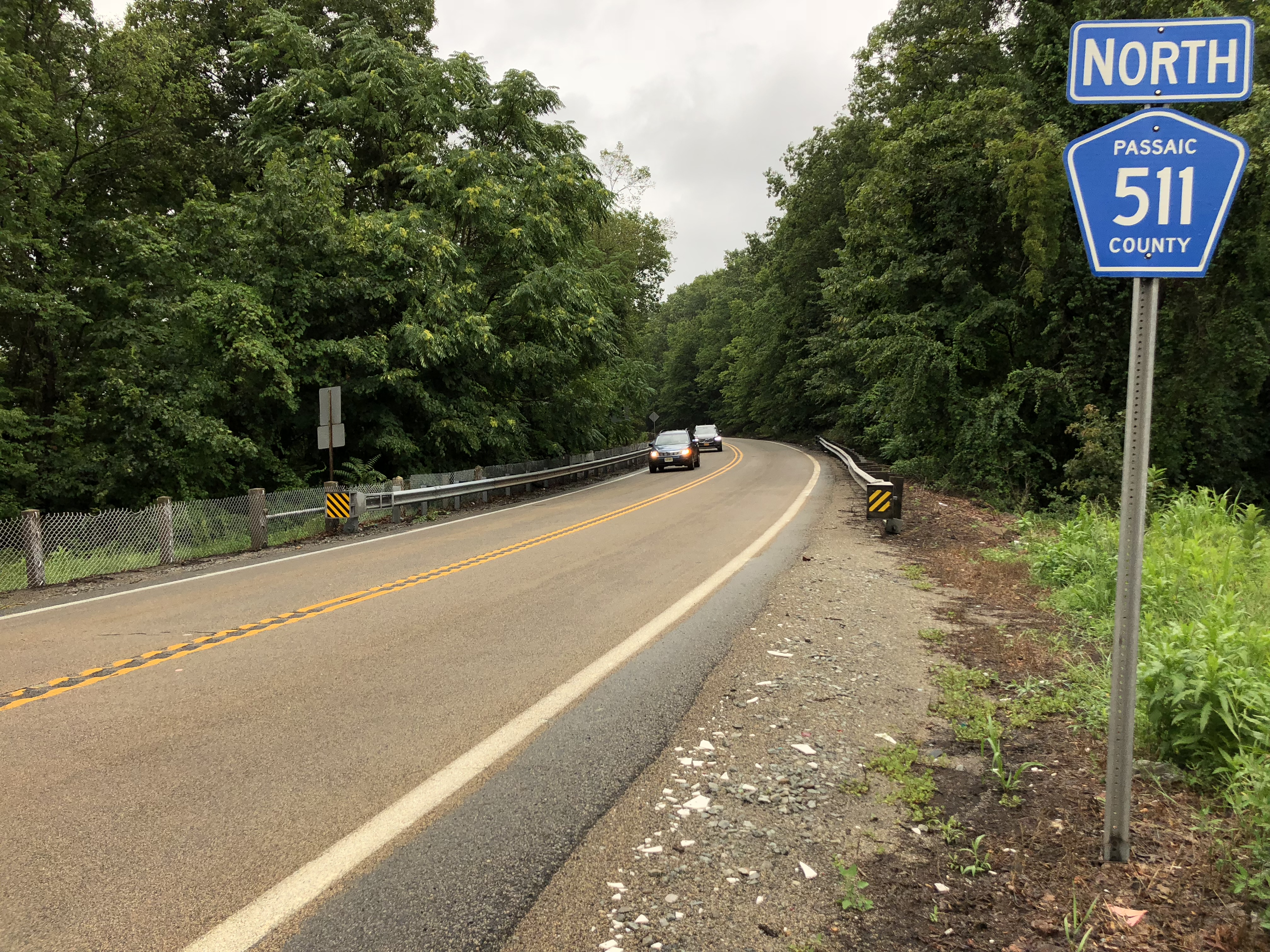 View north along Passaic County Route 511 (Greenwood Lake Turnpike) just north of Passaic County Route 692 (Skyline Drive) in Ringwood, Passaic County, New Jersey